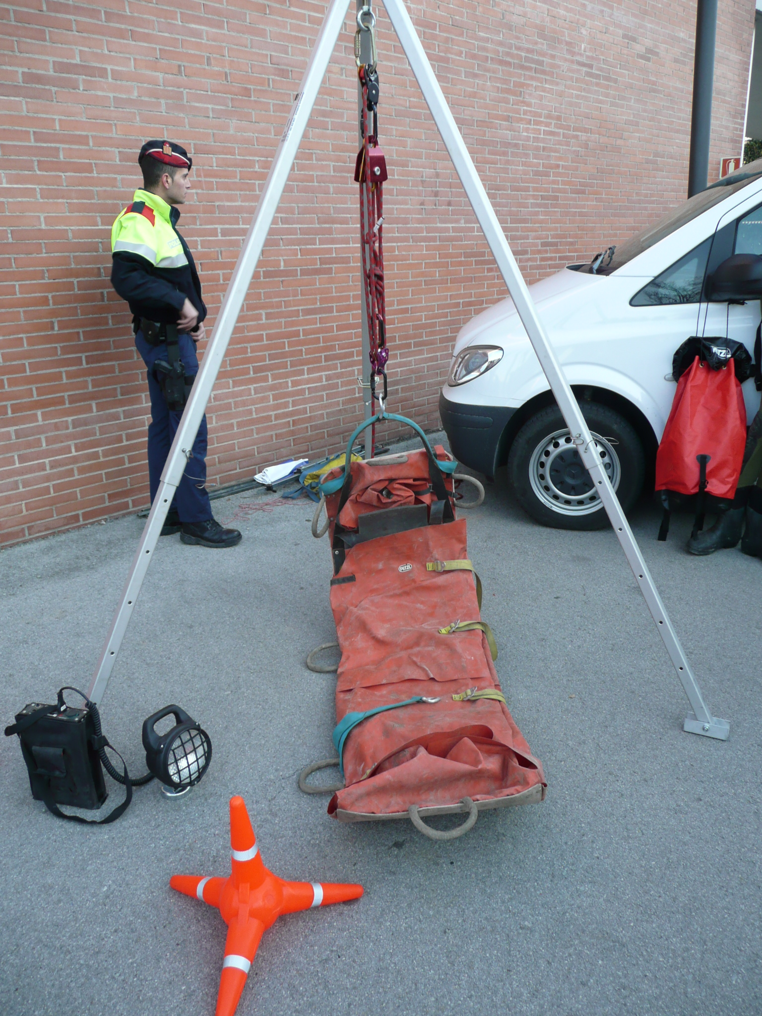 Tripode rescue used by Subsoil Unit to raise and lower into sewers, wells...